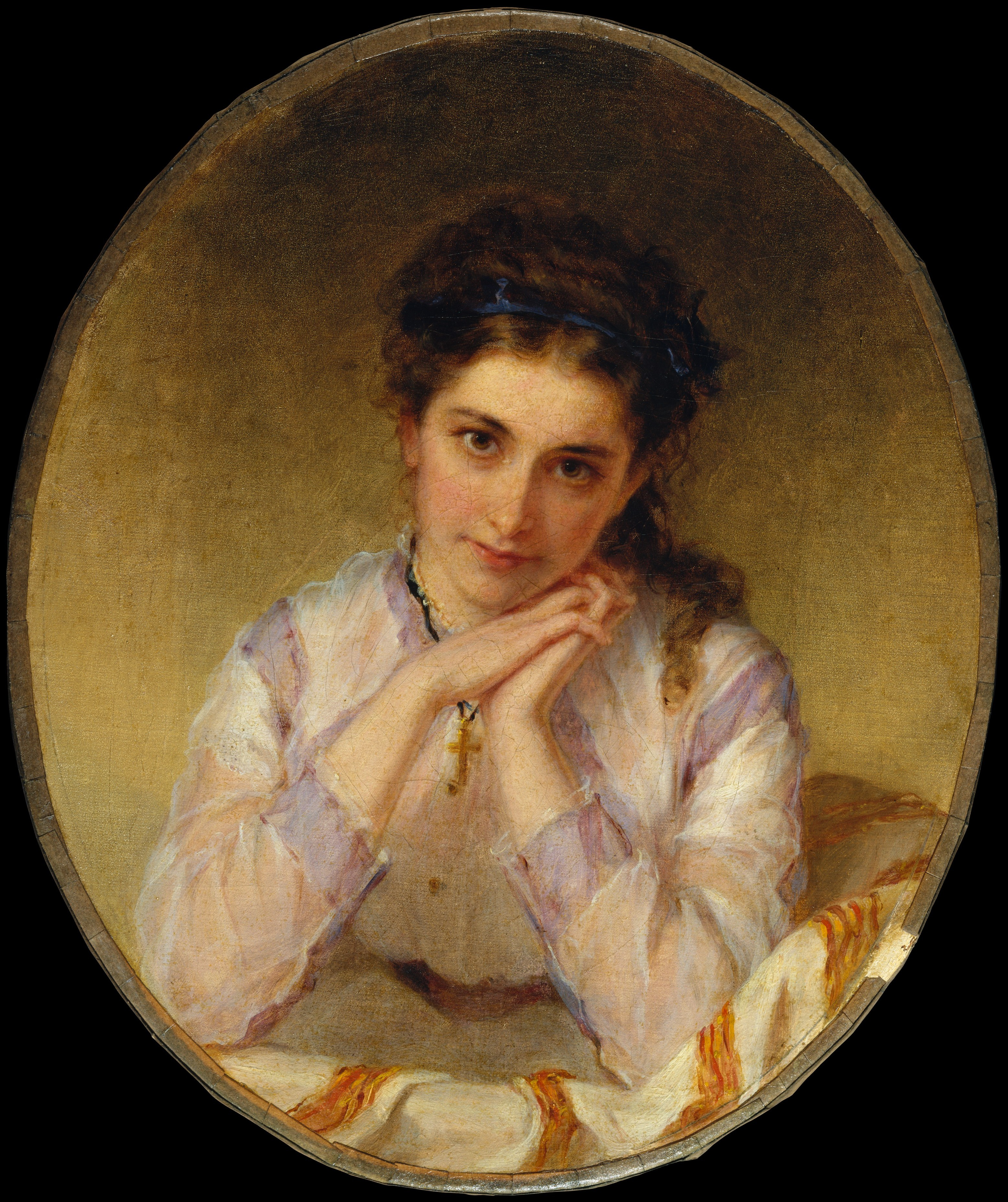 Mary Cadwalader Rawle Artist: William Oliver Stone (1830–1875) Date: 1868 Medium: Oil on canvas Dimensions: Oval: 12 x 10 1/2 in. (30.5 x 26.7 cm) Classification: Paintings Credit Line: Gift of Mrs. Max Farrand and Mrs. Cadwalader Jones, 1953